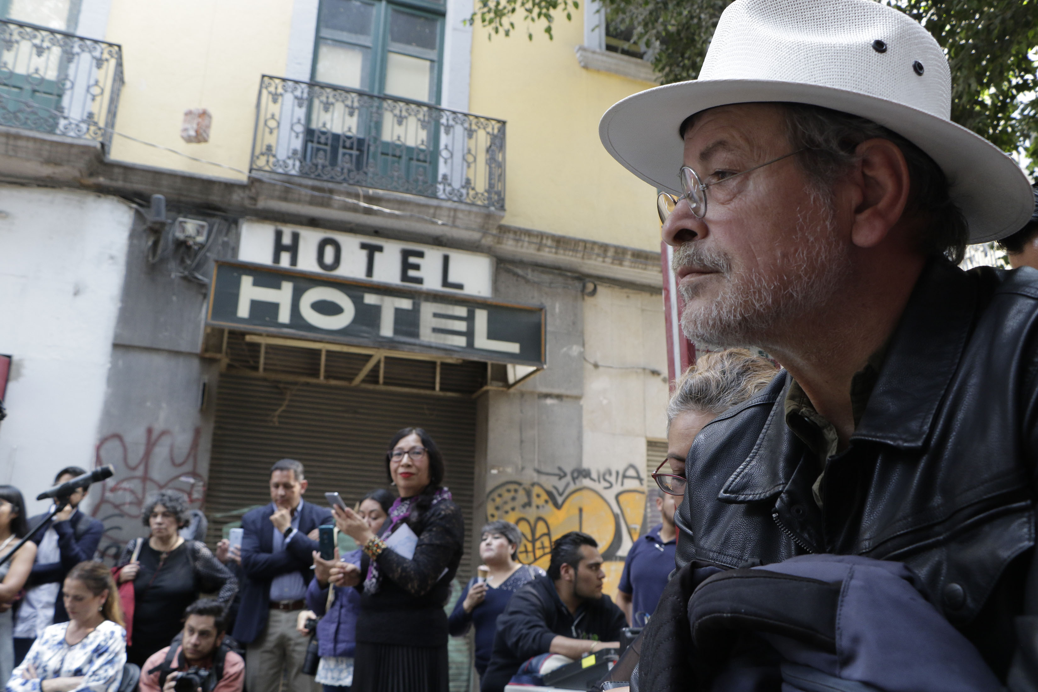 Thursday 14 February, 2019. Xhevdet Bajraj on a public reading in Mexico City. Picture by Tania Victoria / Secretaria de Cultura de la Ciudad de Mexico.